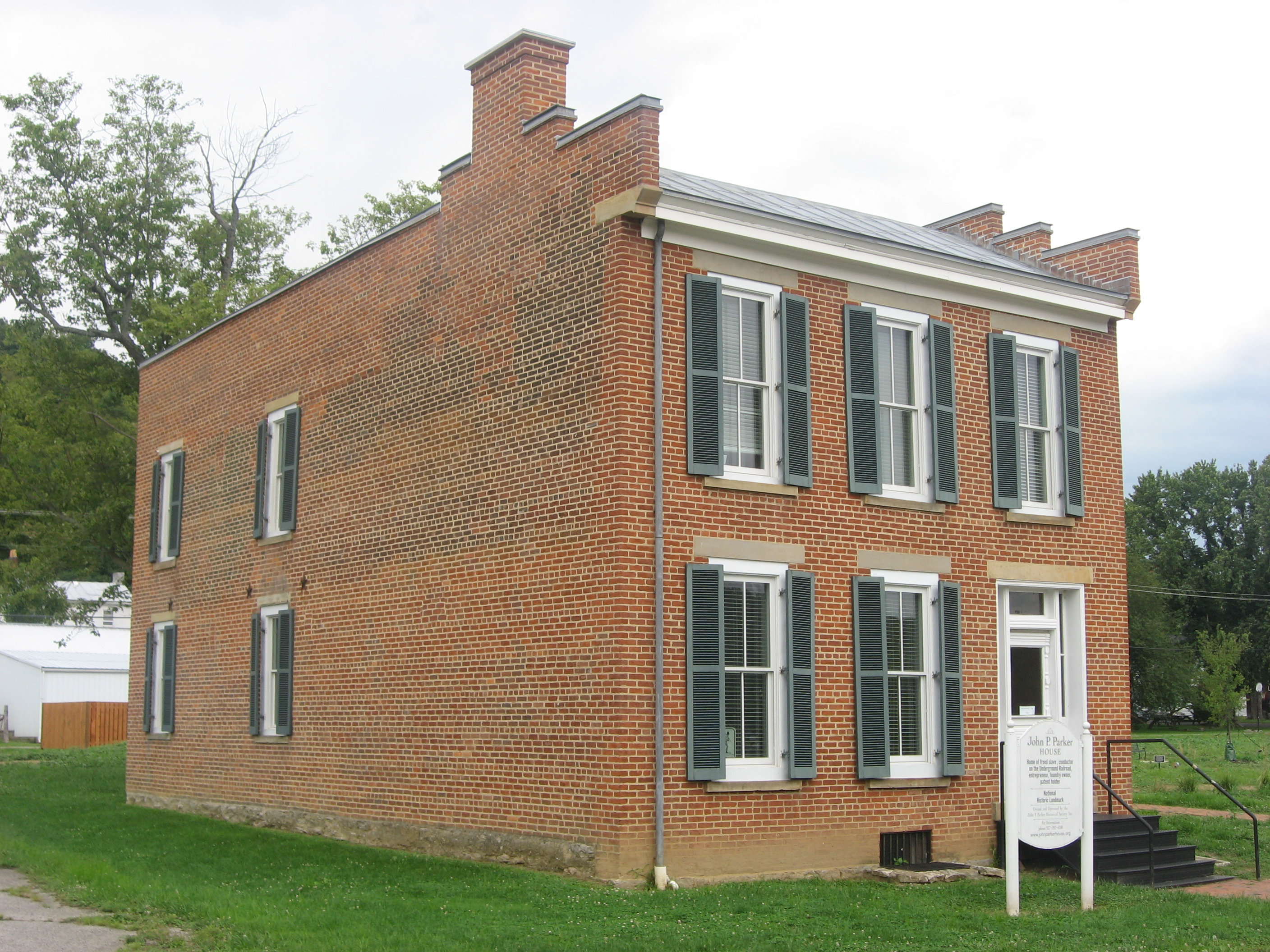 Front and northern side of the John P. Parker House, located at 300 Front Street in Ripley, Ohio, United States. Built in 1850, it has been designated a National Historic Landmark, and it is part of a historic district, the Ripley Historic District, which is listed on the National Register of Historic Places.